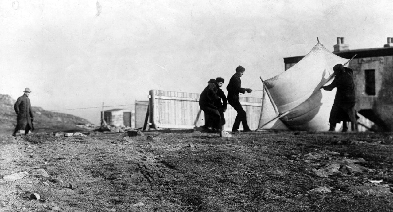 Photograph of Guglielmo Marconi and associates raising the receiving antenna by kite at St. John's, Newfoundland in December, 1901 in preparation for his historic first transatlantic radio transmission 11 December 1901 from Poldhu, Cornwall, a distance of 2300 mi (3500 km). Appeared in the article "Marconi's Achievement" in the February, 1902 issue of McClure's Magazine.